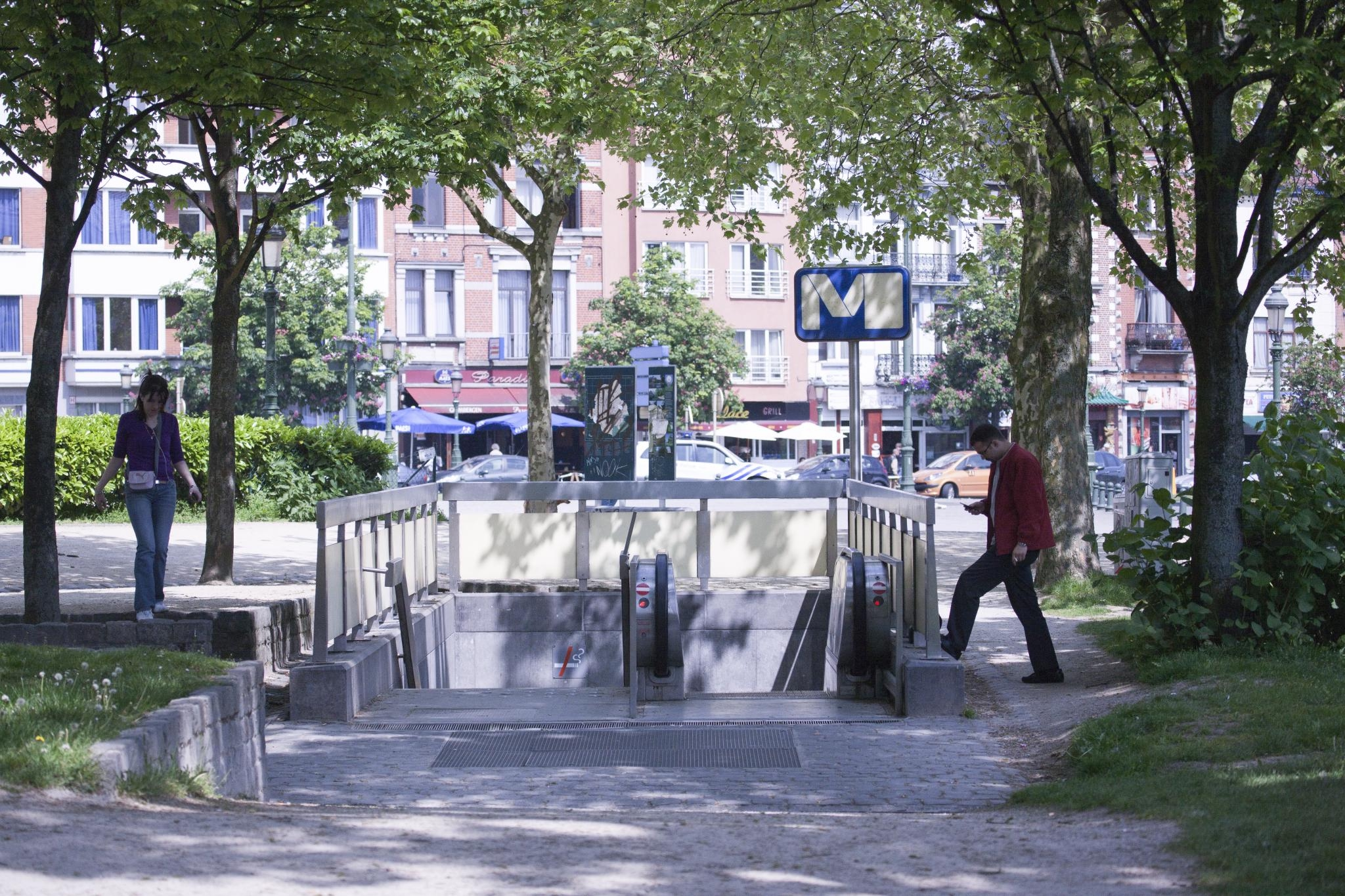 Brussels Simonis metro station entrance